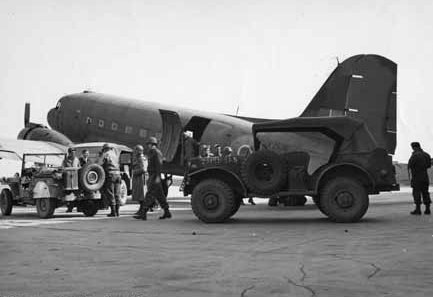 Aircraft and men on way back from Stadtilm